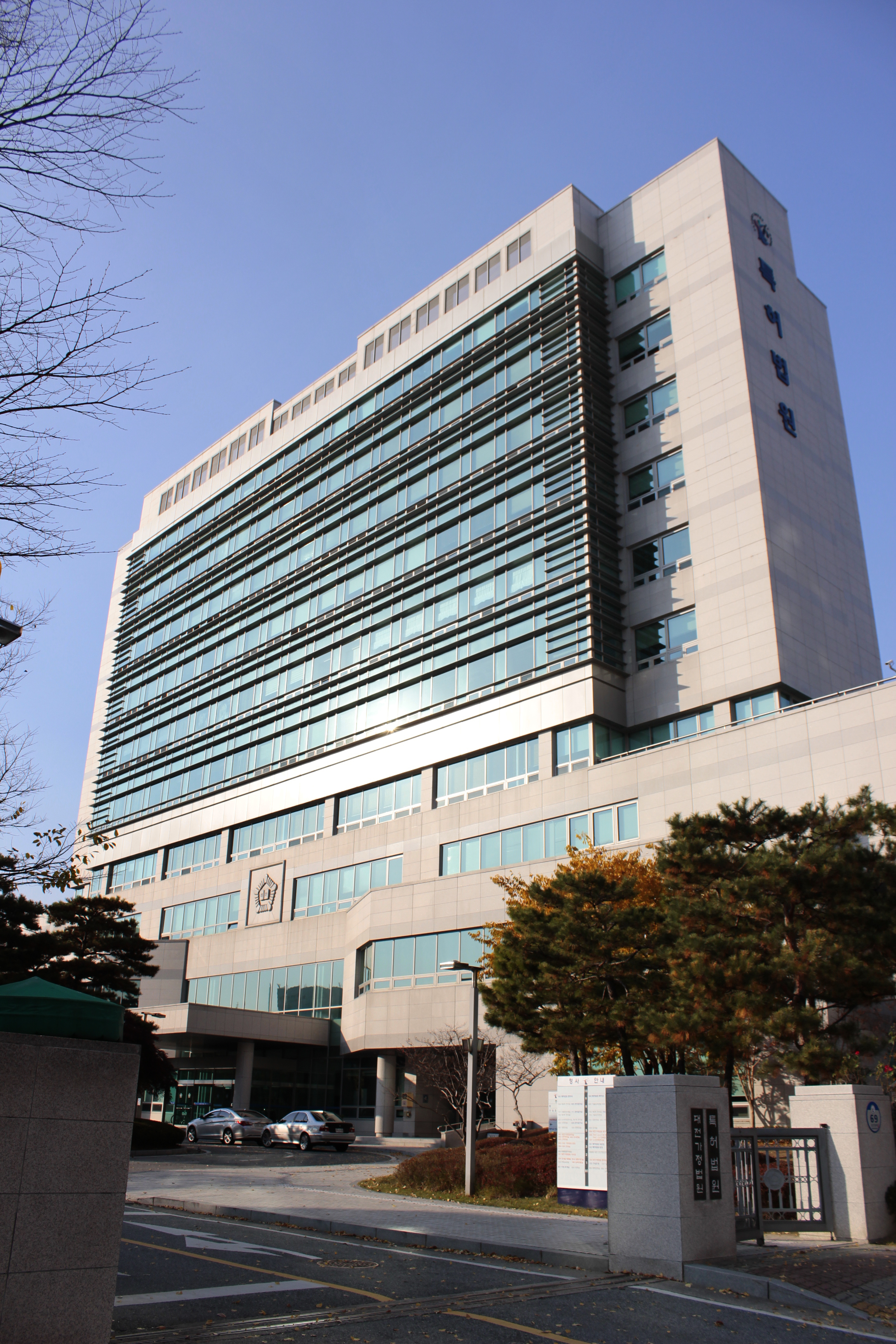 @Daejeon, South Korea